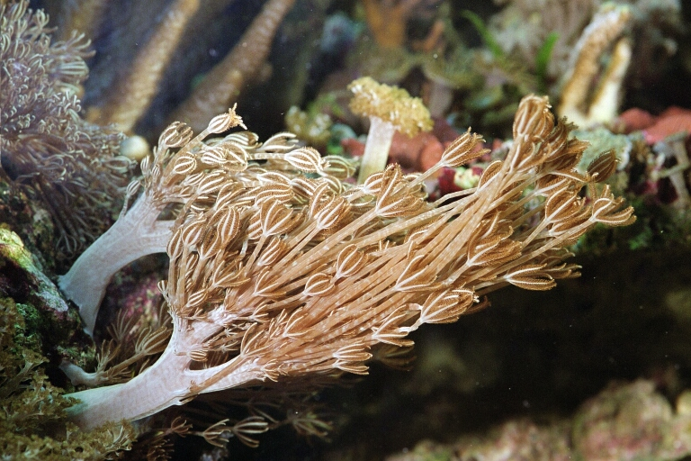 Xenia sp. Soft Coral (Alcyonaria) My own work User:Haplochromis